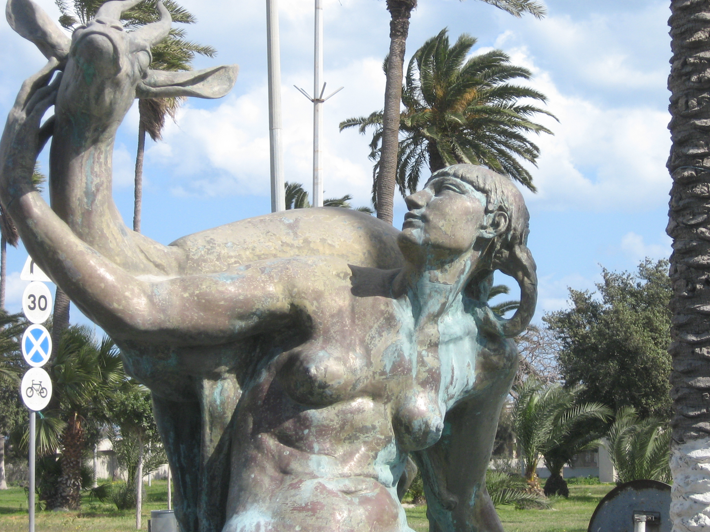 Sculpture in Gazelle Square or "Maidan Al gazala", in downtown Tripoli, Libya.